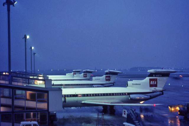 BEA Tridents at Heathrow Photo taken in winter 1968/9, when security was much less of an issue. I'm not certain of the grid reference, or even if this is the correct square. The hangar in the background has Hunting written on it. British European Airways was amalgamated with British Overseas Airways Corporation to form British Airways in 1974.